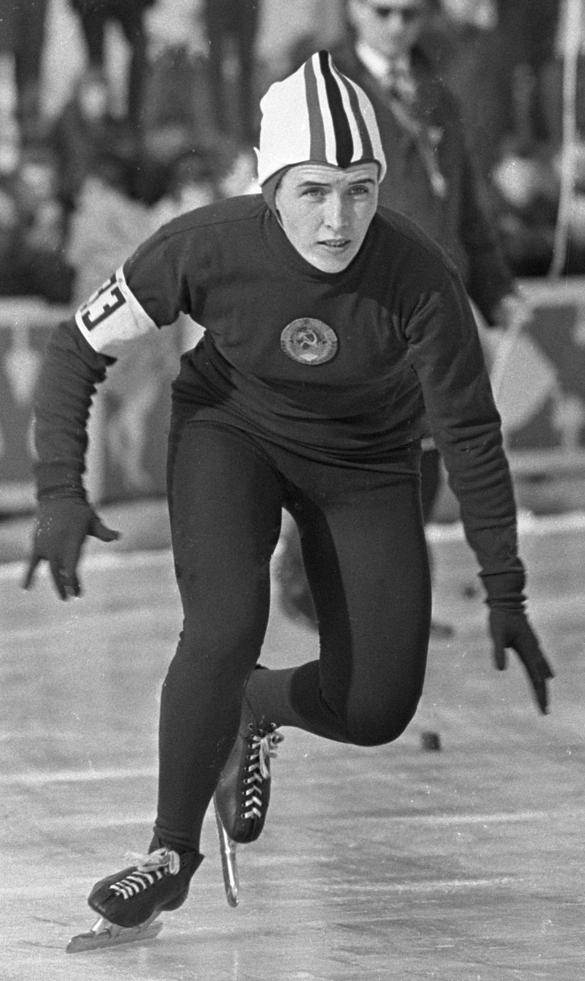 Valentina Stenina at Wold Championships